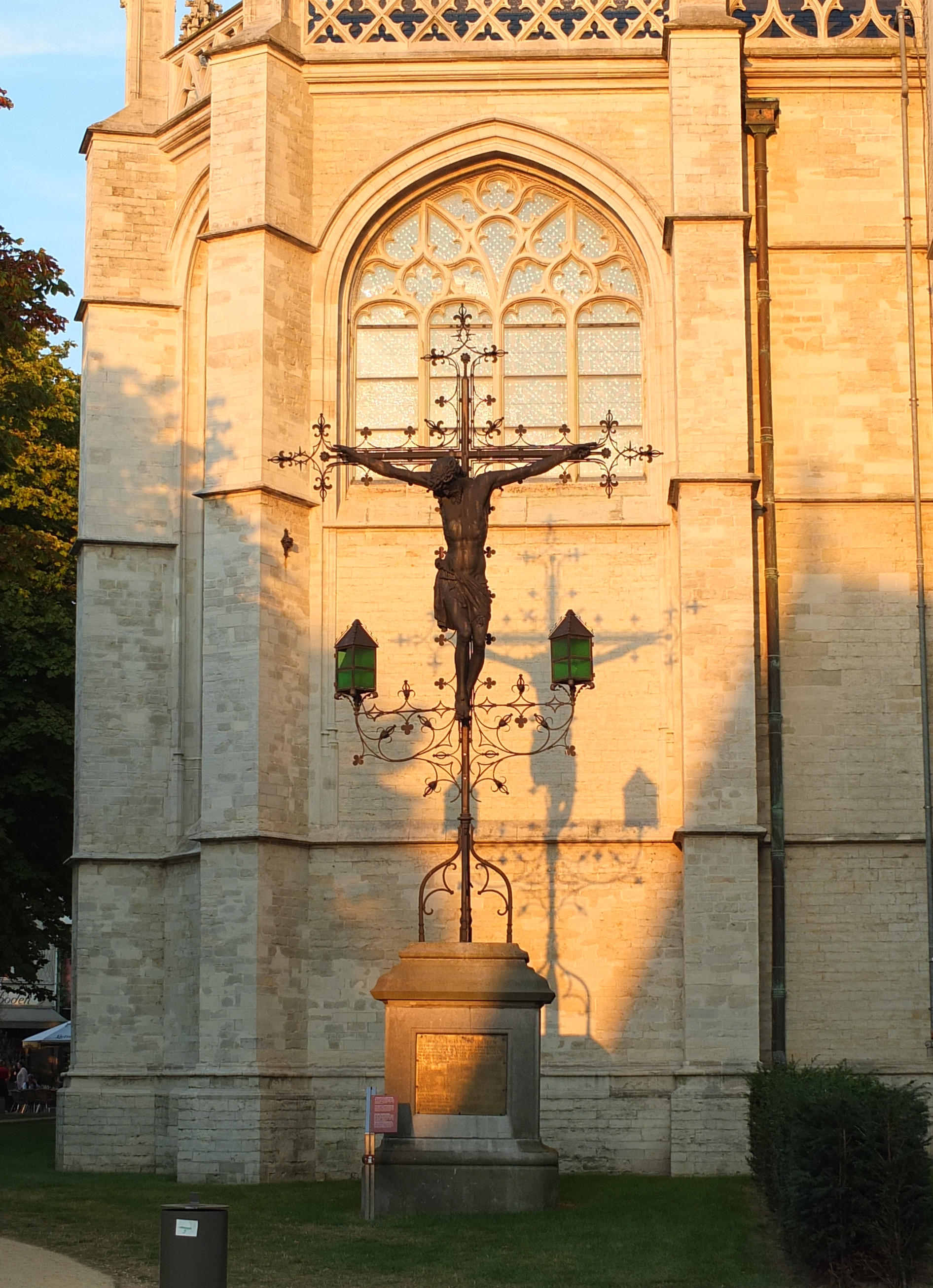 Monument to the Peasant's Revolt, this monument was inaugurated on 23 October 1898. It stads next to the entrance of St-Rombold's Cathedral. It was placed at the spot where 41 rebels were executed by the French army a century earlier. Their mass grave was discovered in 2010 during archeological excavations in St Rumbold's graveyard.